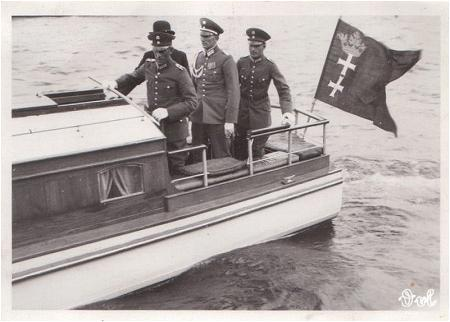 Danzig Police President Helmut Froeboss (Helmuth Fröboss).